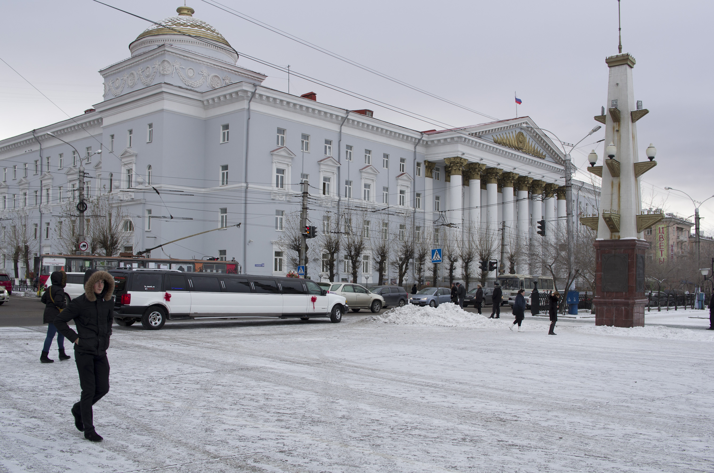 Chita, Russia